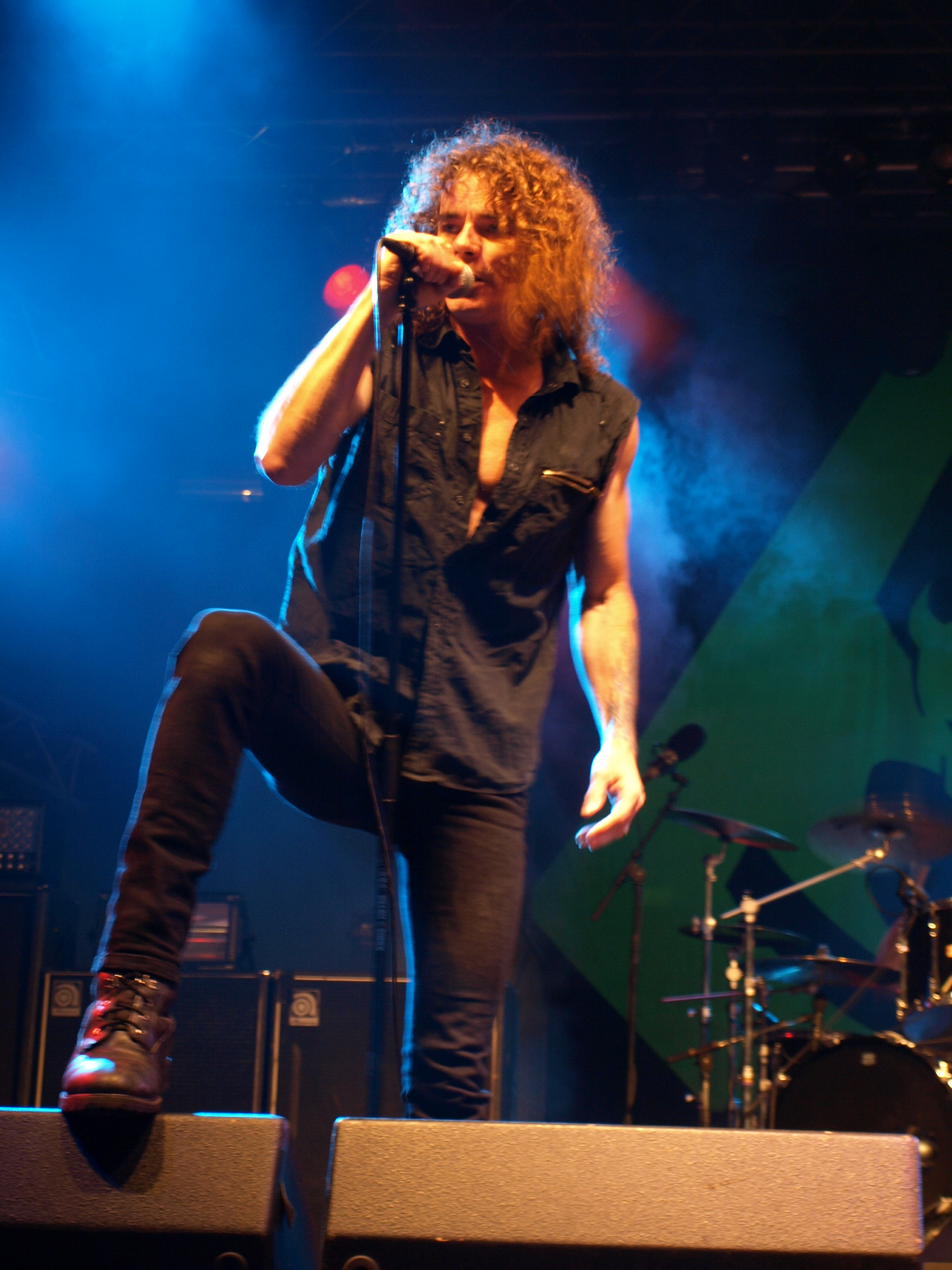 American thrash metal band Overkill live at Jalometalli 2008 in Oulu.